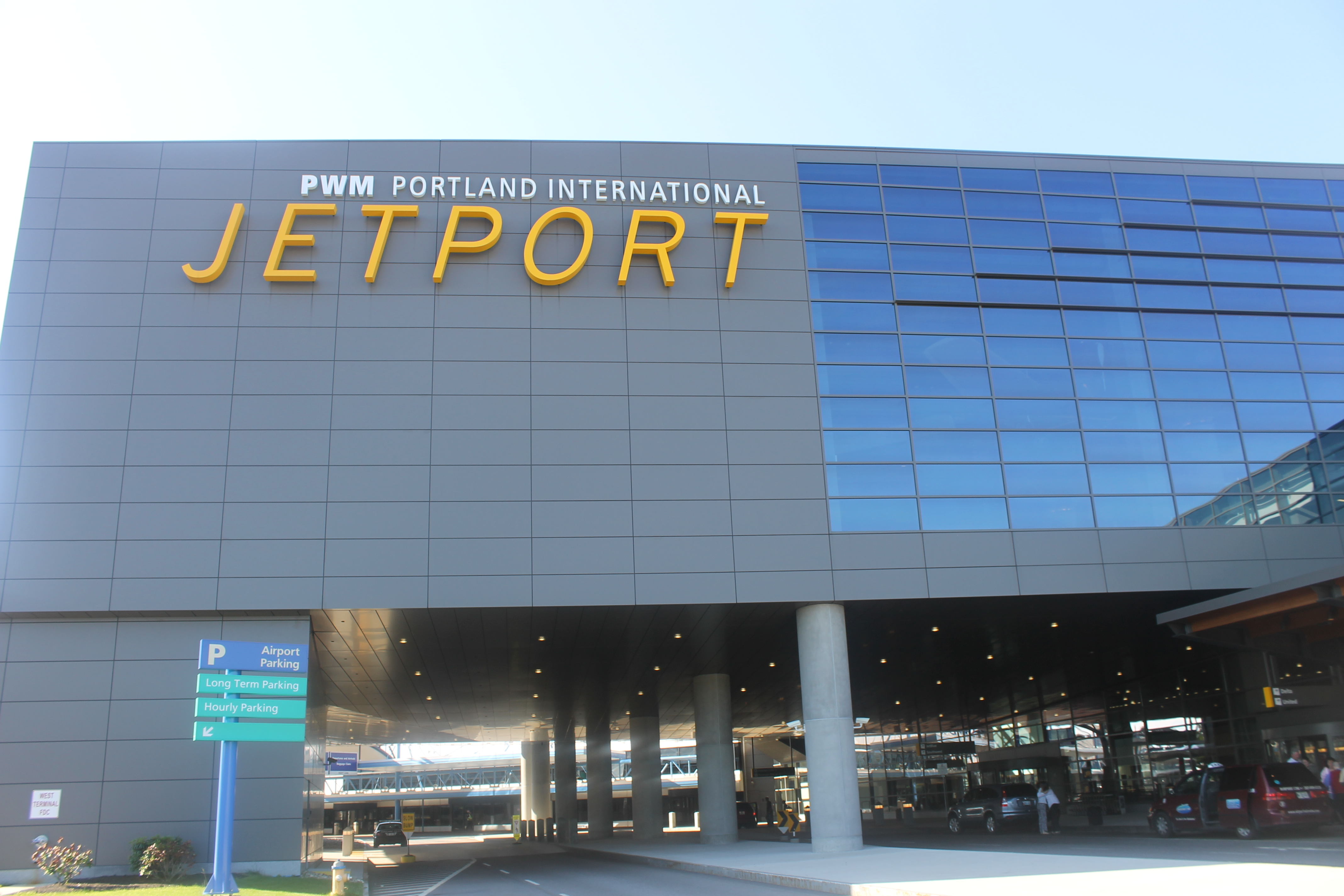 I took photo of entrance to Portland International Jetport, Portland, ME.